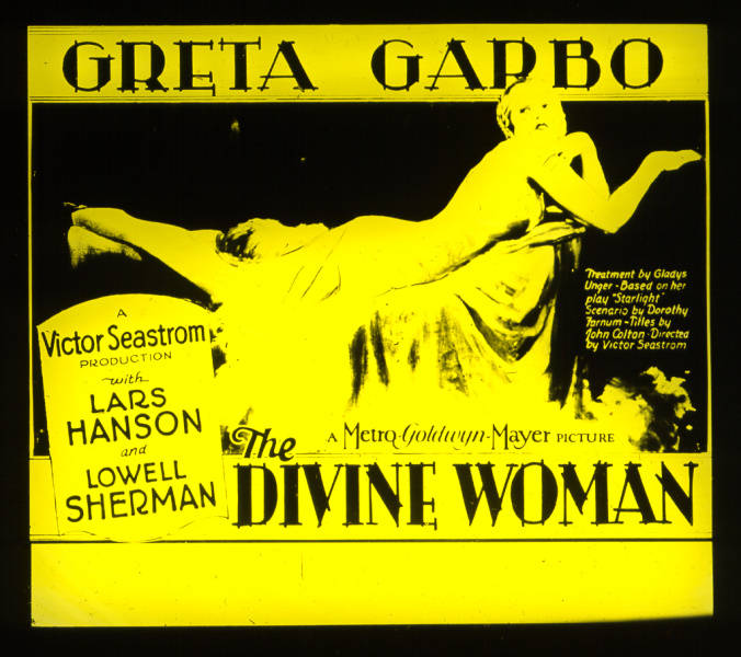 Lantern slide for the film The Divine Woman (1928). Clearly not marked as under copyright, thus public domain.